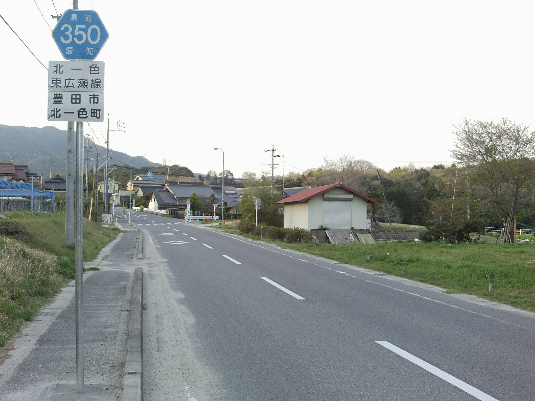 Aichi prefectural road No.350 in Kitaishikicho, Toyota, Aichi.